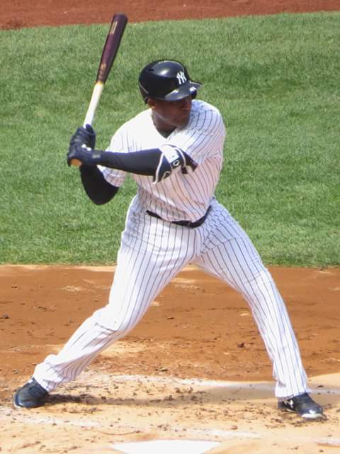 Miguel Andújar in 2018